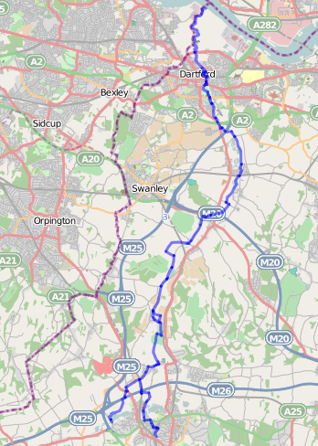 Screenshot of map of Darent Valley Path, cropped.